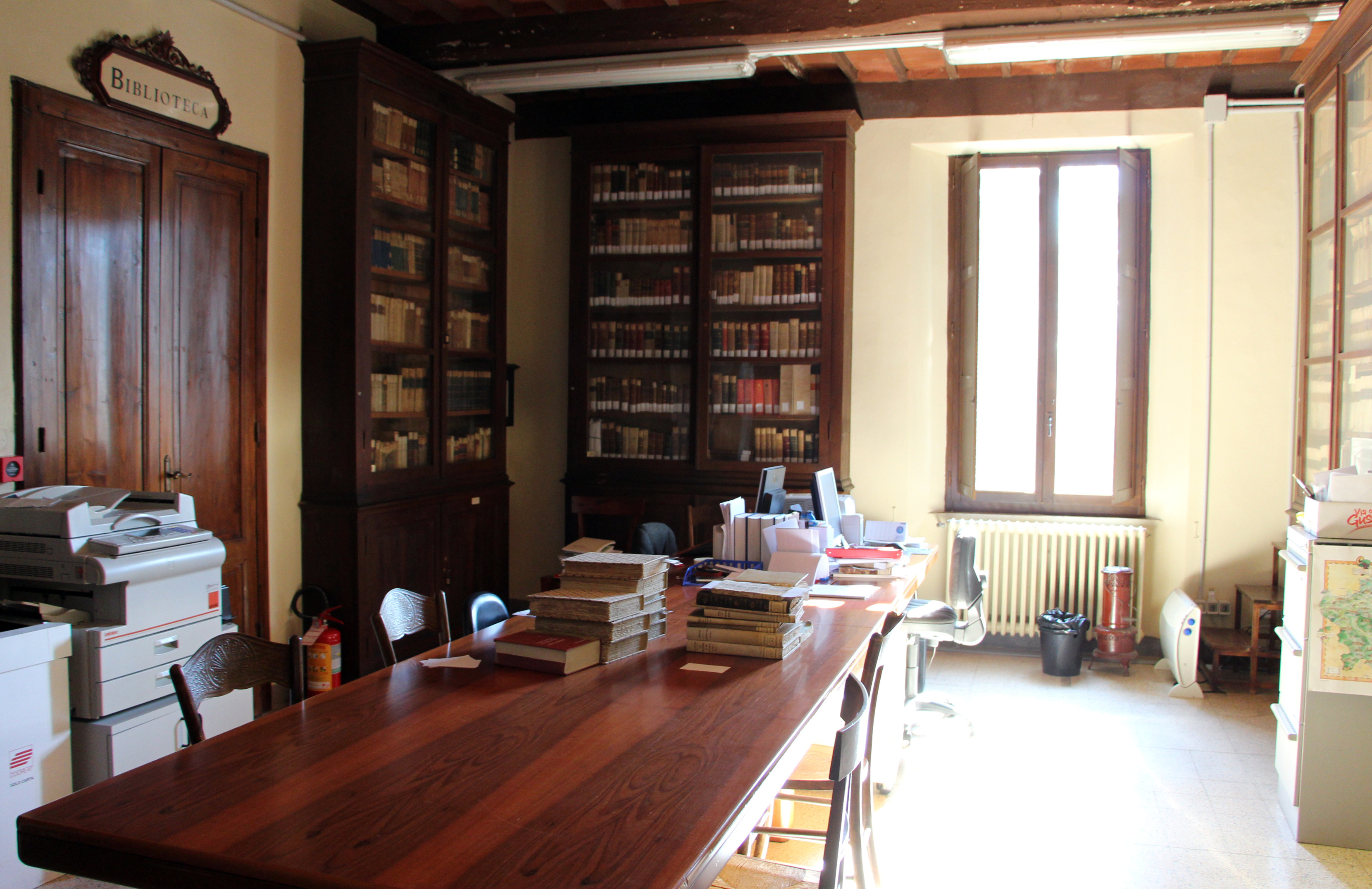 Accademia dei Fisiocritici Museums